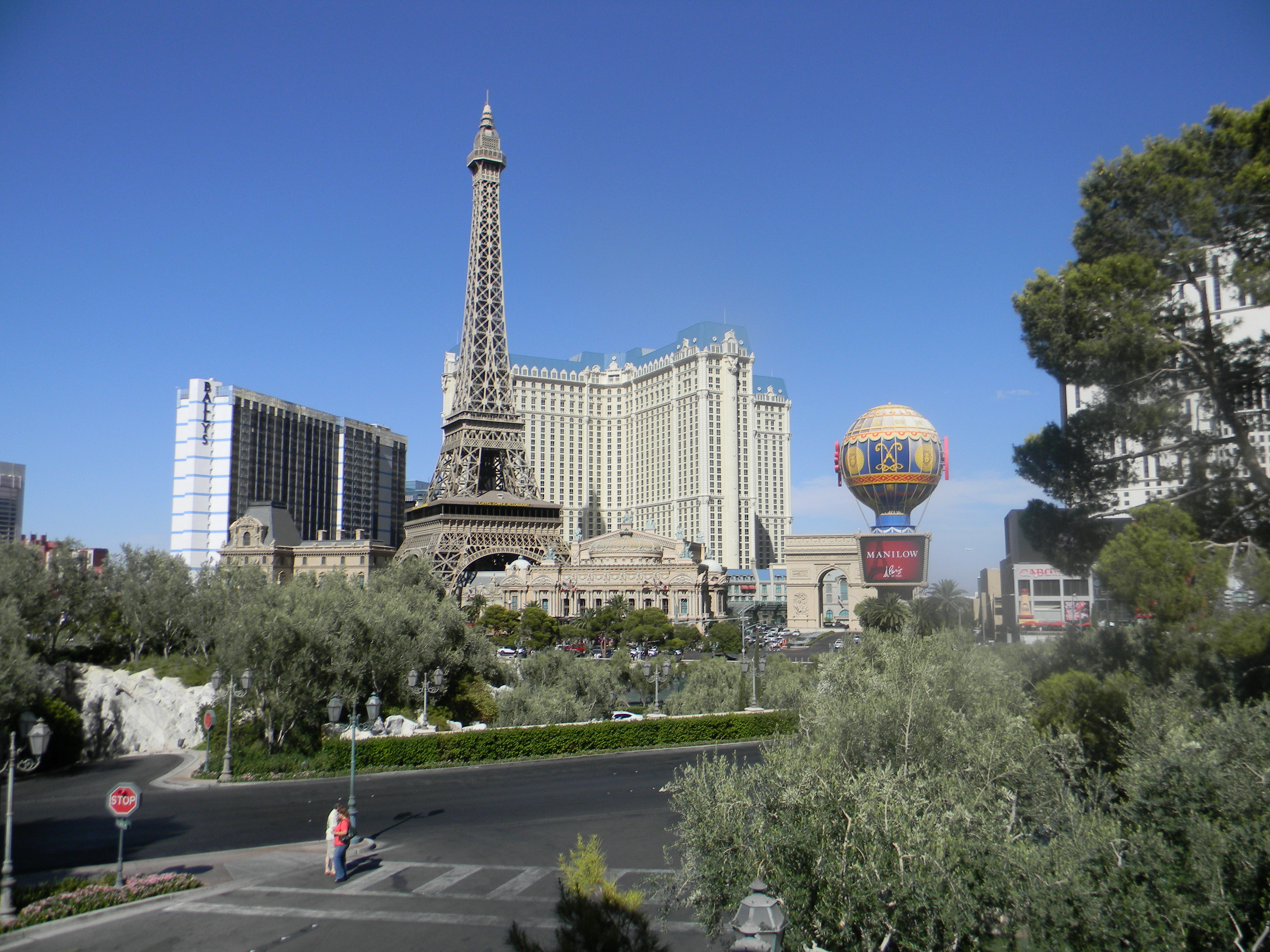 Paris hotel (Las Vegas, Nevada), View from Monte Carlo hotel to Strip